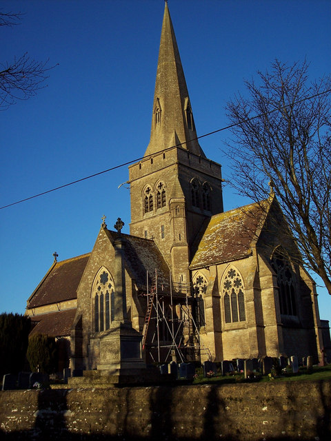 St John the Evangelist parish church, Sutton Veny, Wiltshire, seen from the south